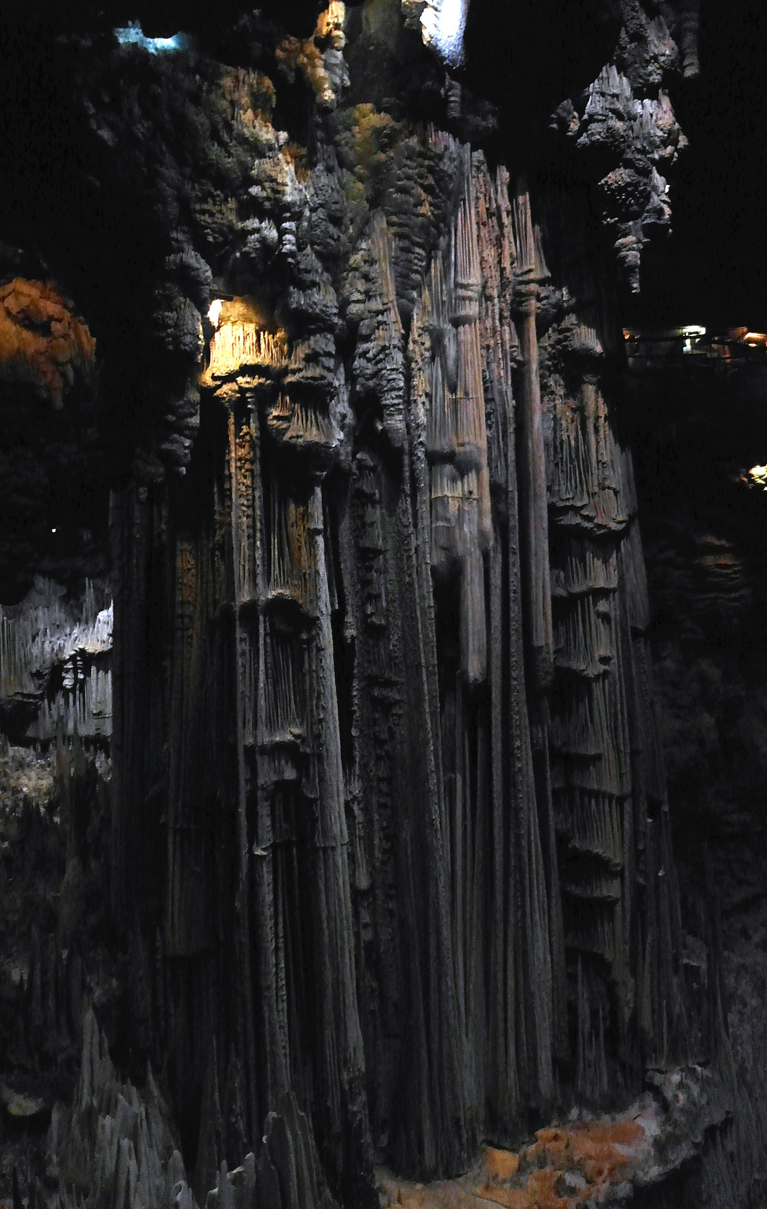 World's greatest stalagnate in the Nerja's cave, Spain